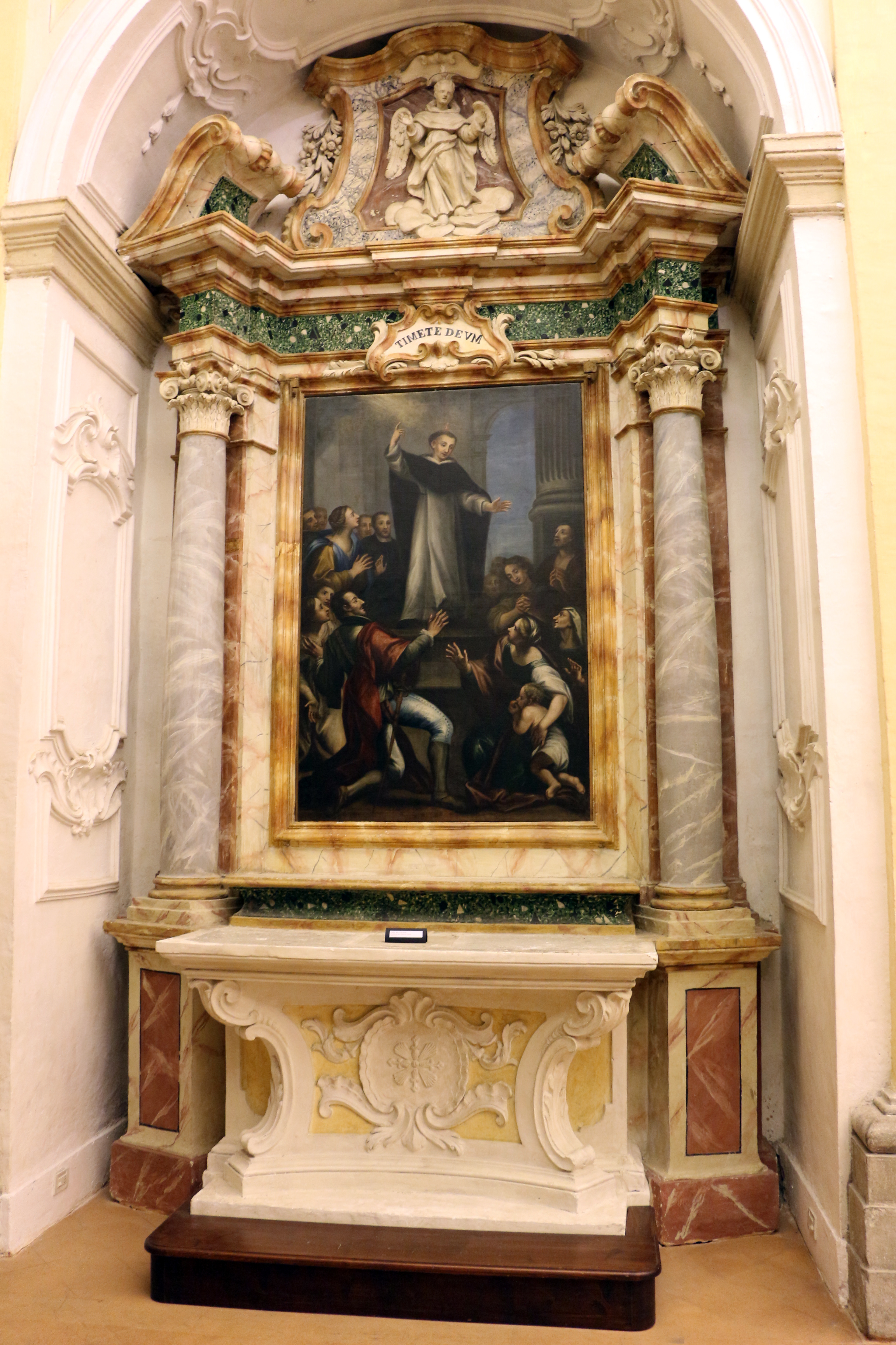 Santa Croce (Umbertide)